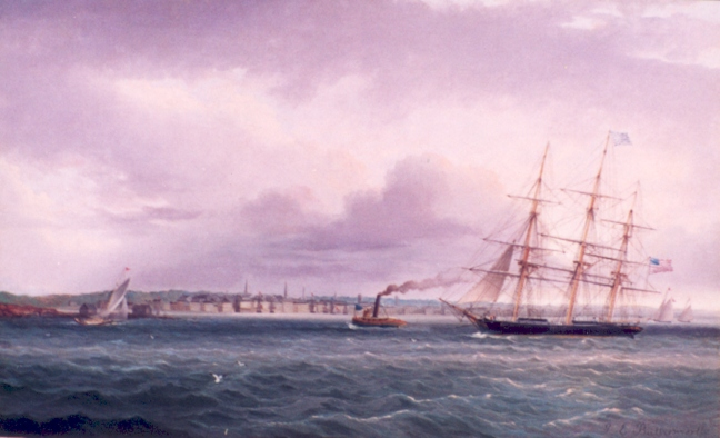 The Clipper Memnon Under Tow by James E. Buttersworth, prominent on her is the house flag of F. A. Delano.